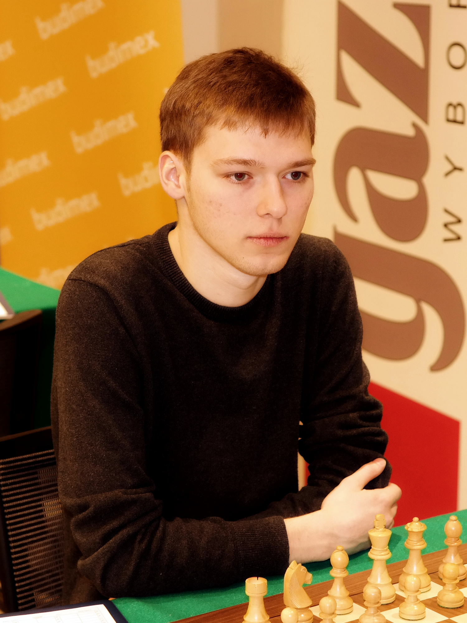 IM Paweł Weichhold, Polish Chess Championship, Warsaw 2014